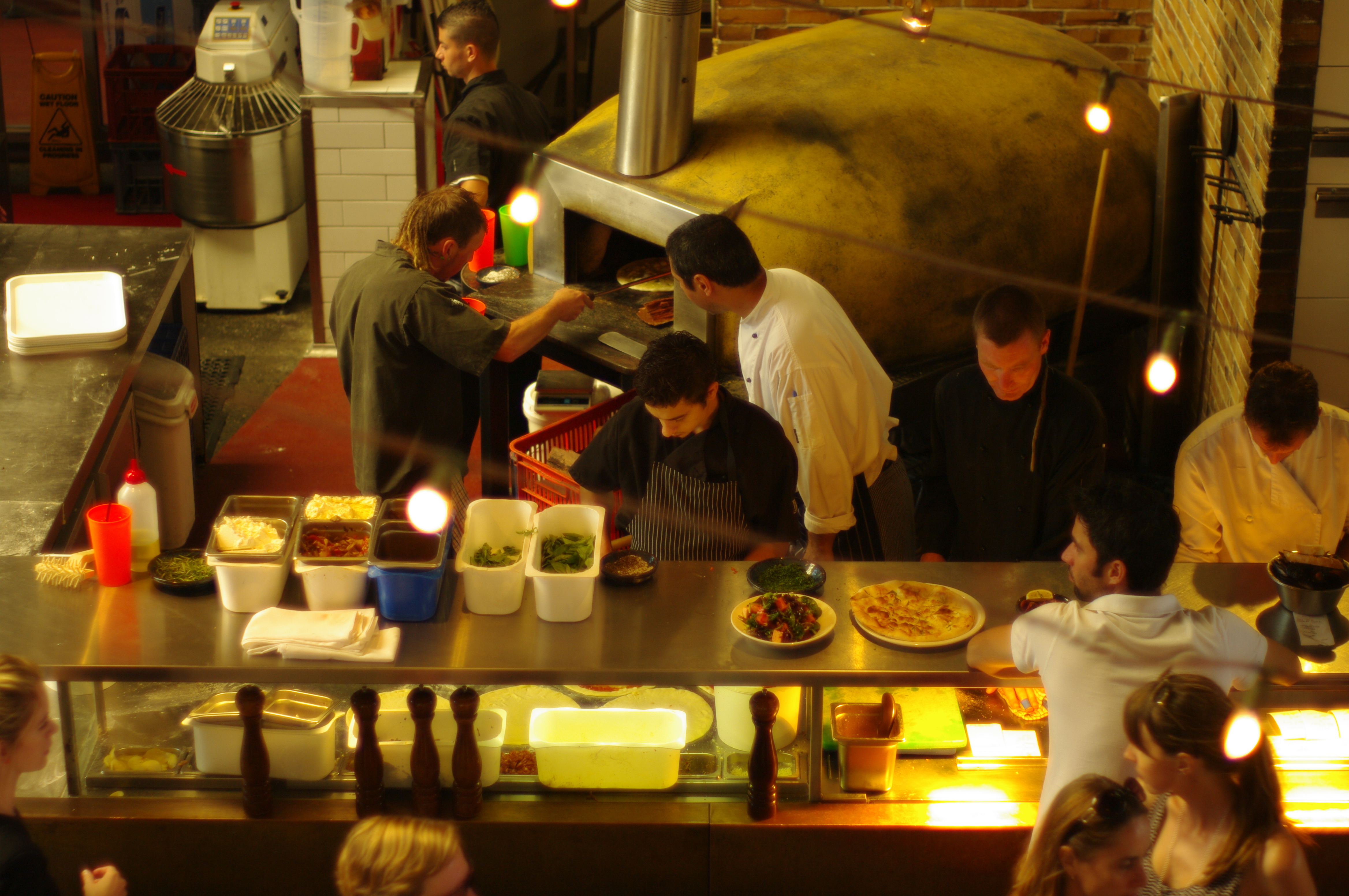 The pizza oven at Little Creatures, Fremantle Western Australia